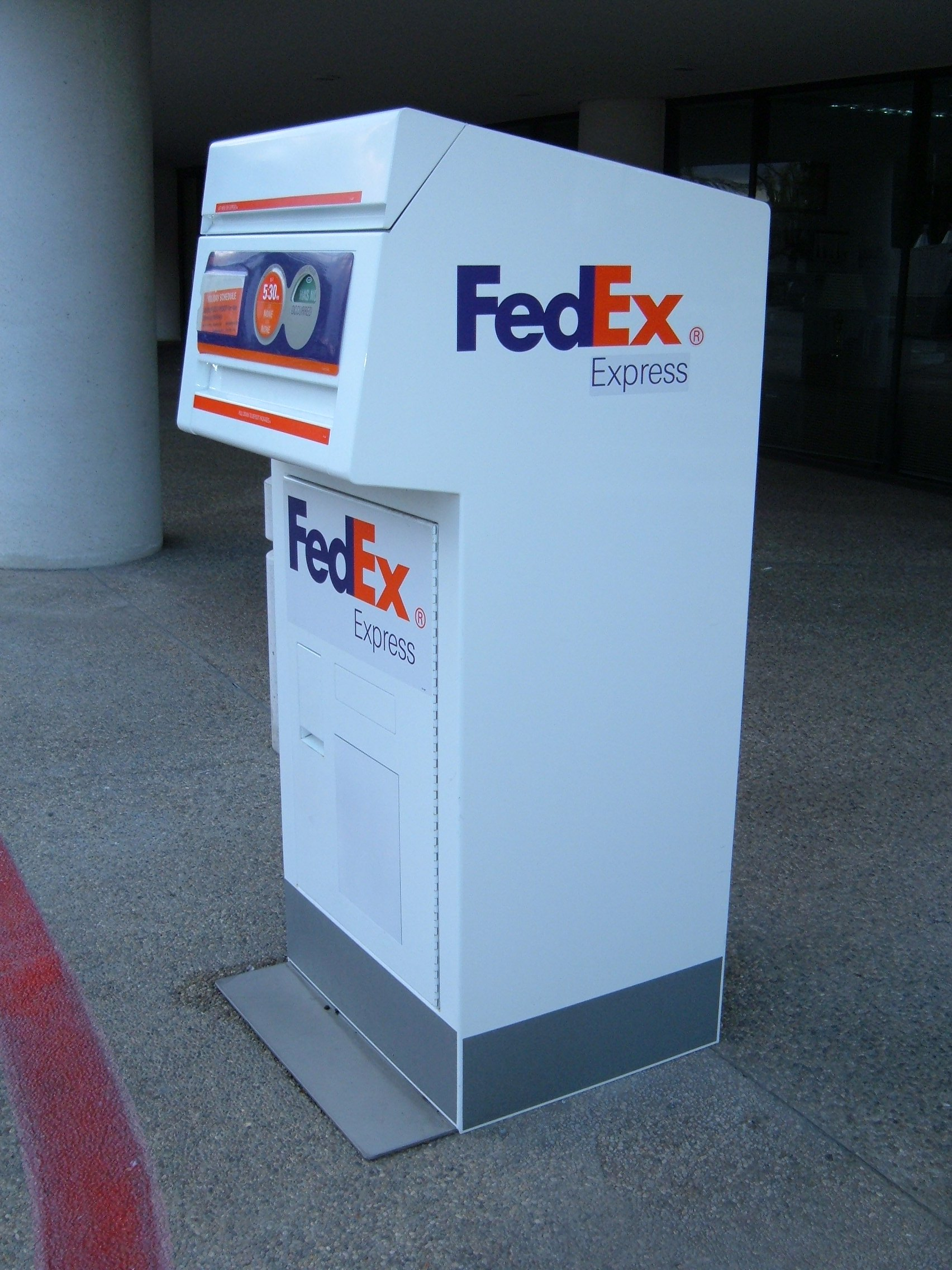 FedEx drop box outside an office building in San Mateo, California.